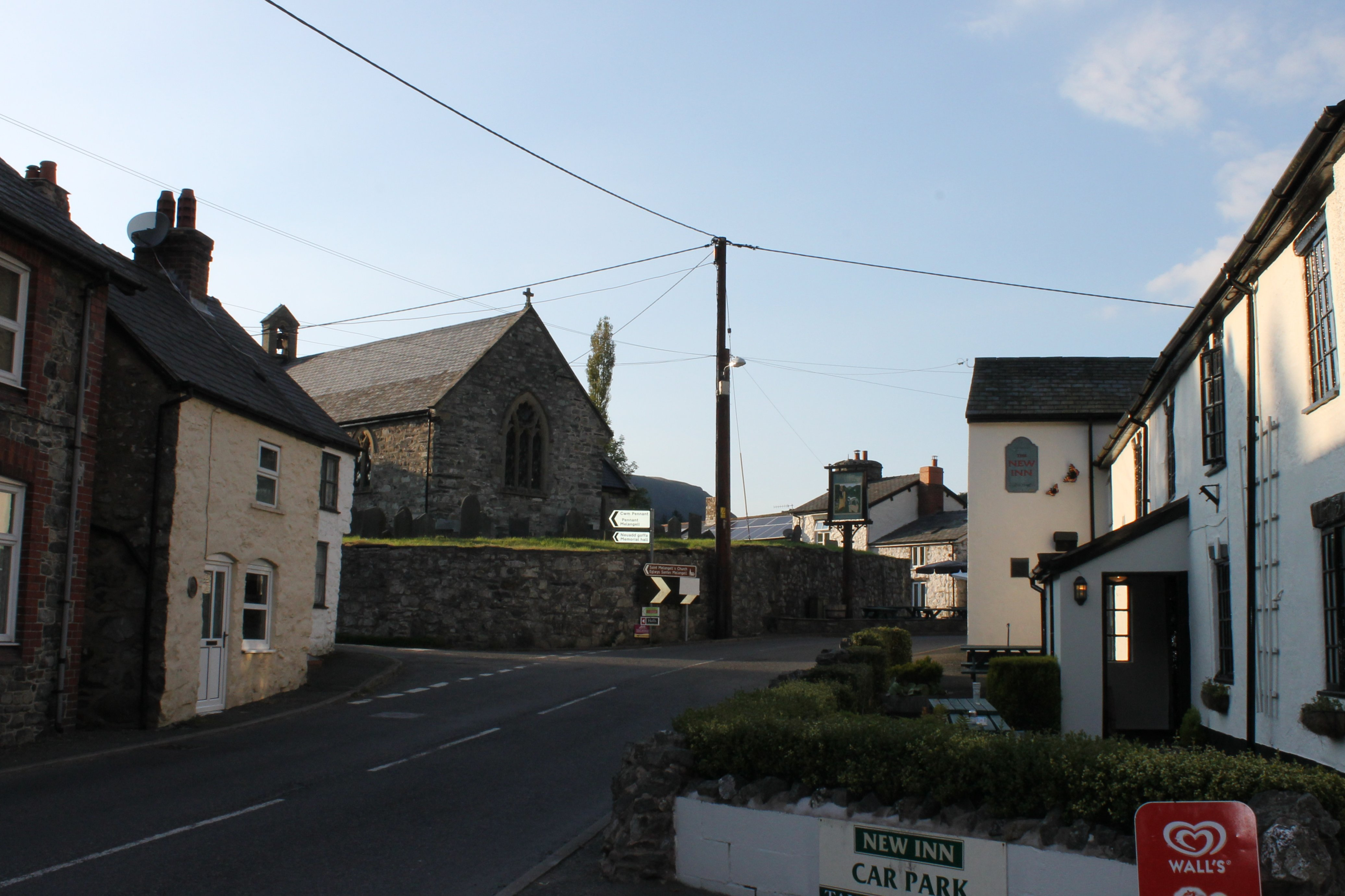 Church of St Cynog, Llangynog, Powys, SY10 0ES, is located at the centre of the village of Llangynog, in a raised churchyard enclosed by a tall wall. Dated 1791 in wall at north of churchyard.